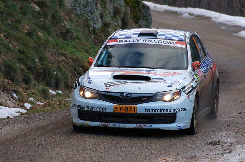 Bryan Bouffier in Rally de Monte-Carlo 2010